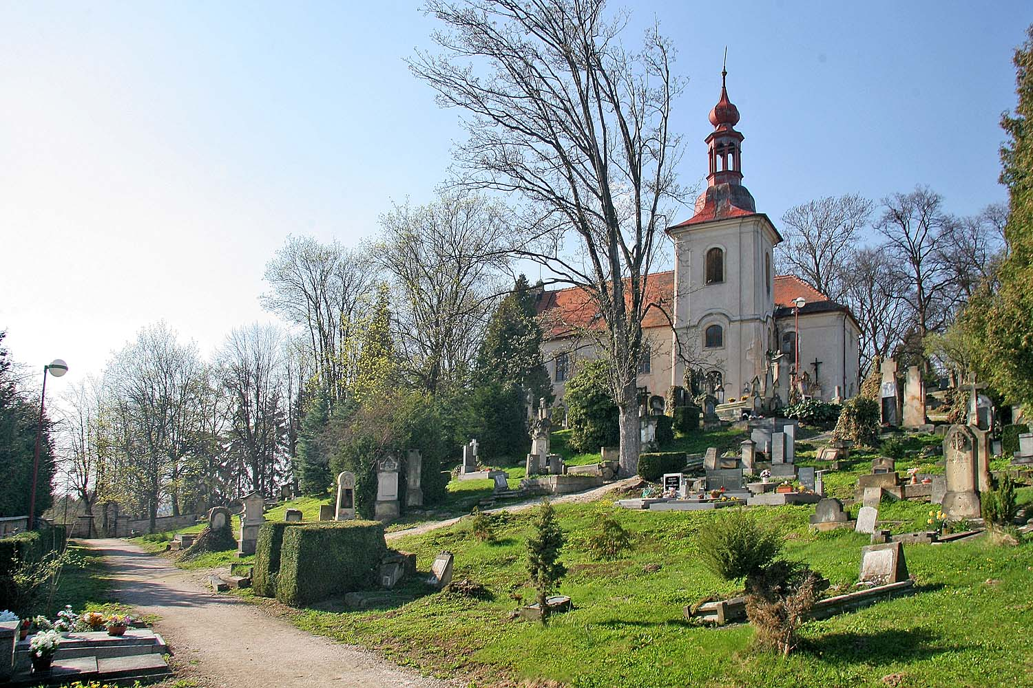 Saint Gotthard church on a hill of the same name near Hořice, Jičín District, Czech Republic.